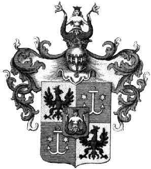 Von Hößlin (Esslin) family coat of arms, given by Leopold I